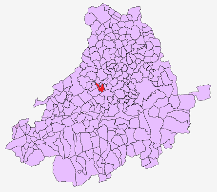 Valdecasa